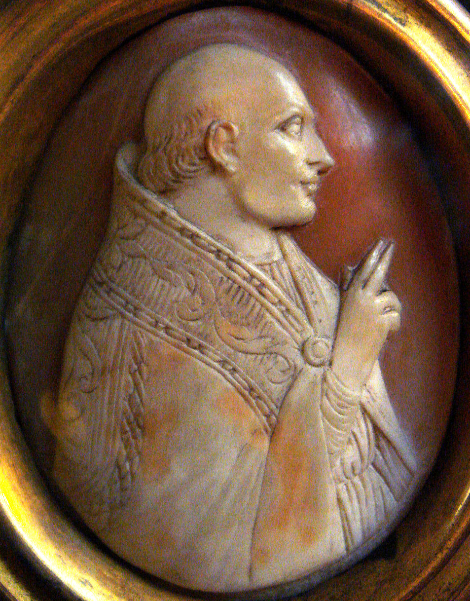 Cameo of Pope Clement V